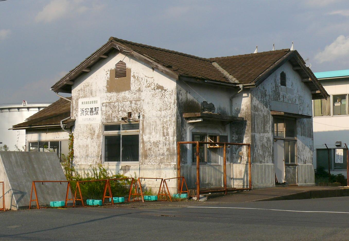 Hama-anzen station(It is being abolished now.).